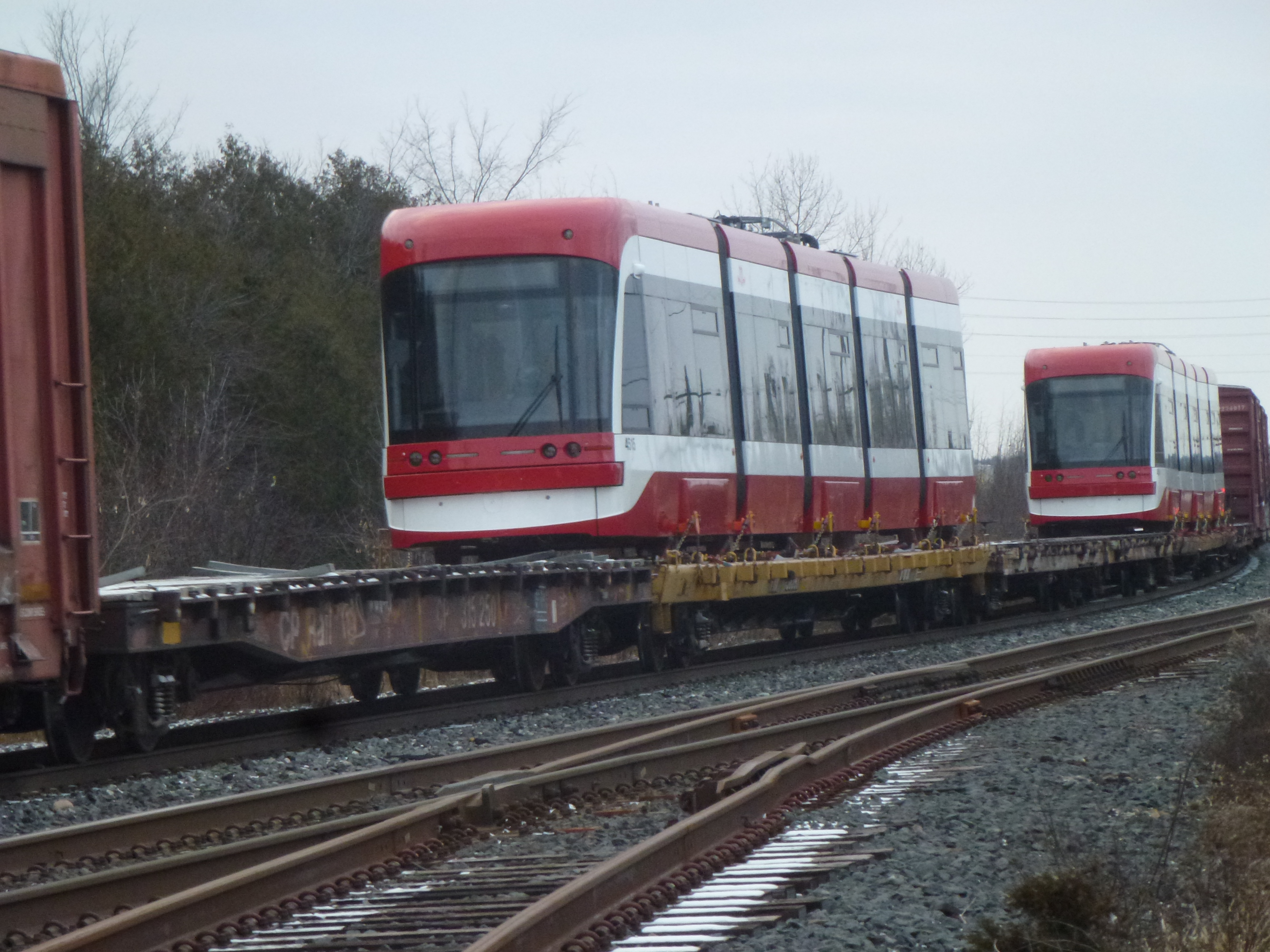 Two Toronto Flexity streetcars, nos. 4515 (foreground) and 4514 (background) pass through Bolton, Ontario, near the end of their journey from Thunder Bay to Toronto. The date was 2018-12-07, and the train was part of a two-train meet, with this train using the passing siding (the mainline is in the foreground). Because the streetcars overhang at each end of the flatcars on which they are loaded, they are separated from neighbouring cars by empty flatcars. Photographer's coördinates: 43.869348, -79.740073